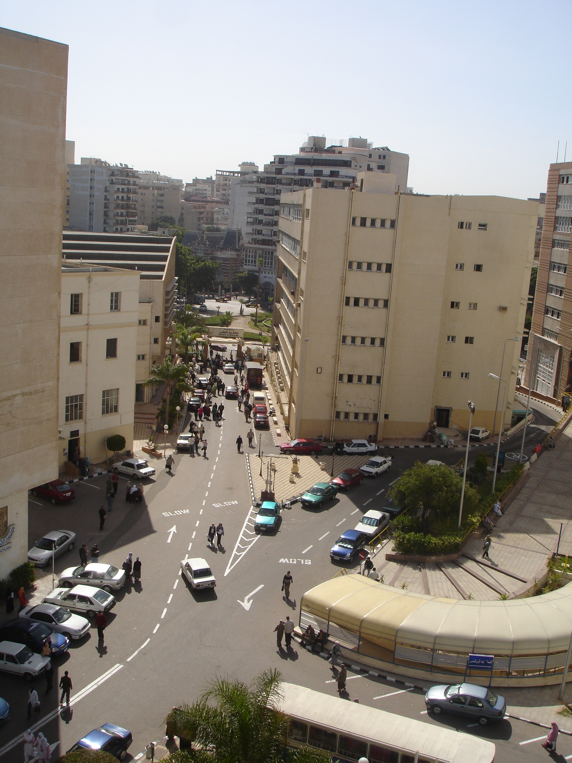 Faculty of Medicine, Alexandria, Egypt.